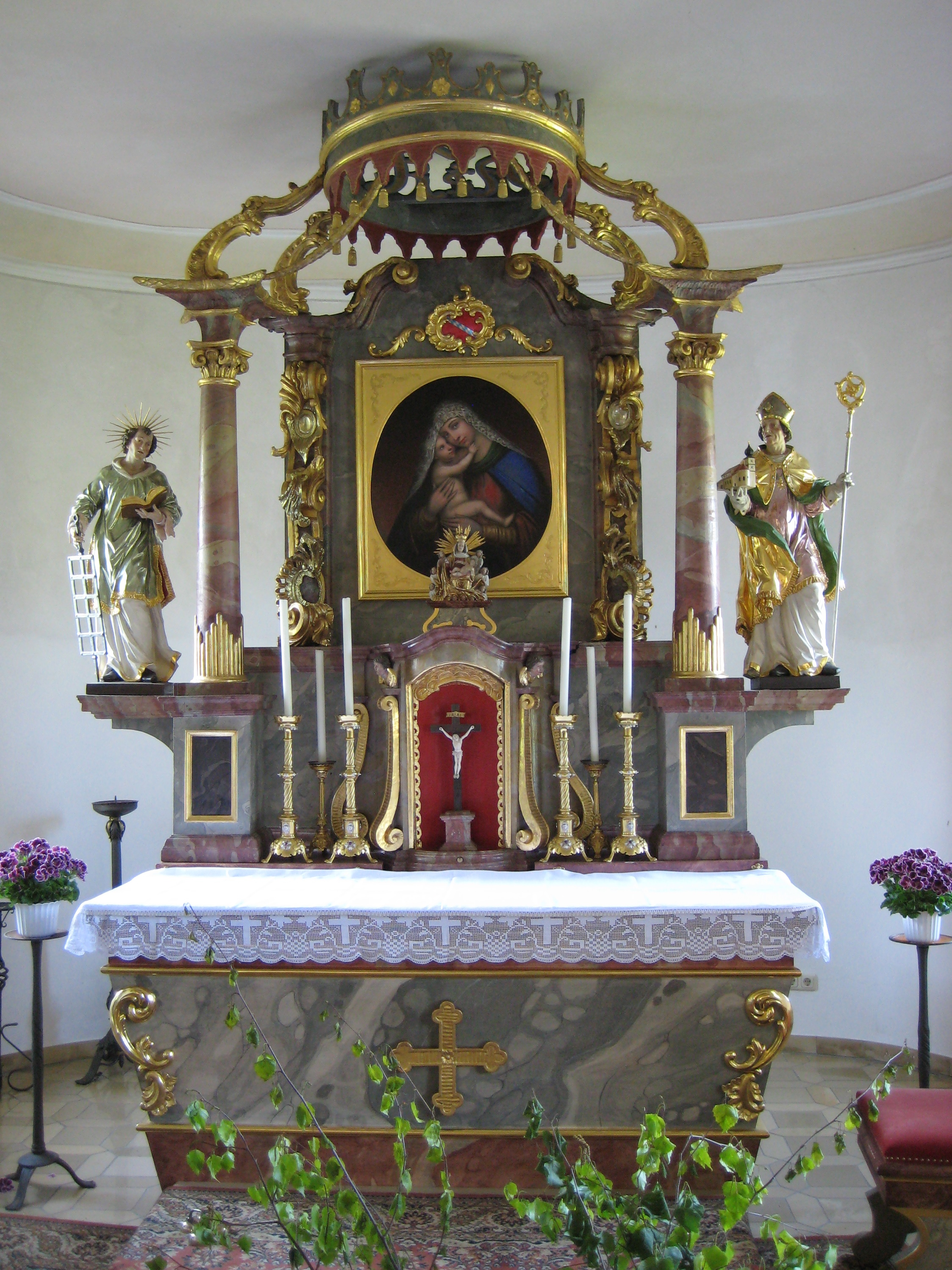 Chapel Osterbrünnl near Ruhmannsfelden